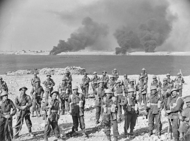 Tobruk, Libya, en:22 January en:1941. Members of C Company (mostly from 14 Platoon), Australian 2/11th Infantry Battalion, part of the 6th Division having penetrated the outer defences of Tobruk, assemble again on the escarpment on the south side of the harbour after attacking anti-aircraft gun positions. The battalion was formed in Western Australia. Left to right: Front row: Sergeant (Sgt) B Illingworth (1); Private (Pte) R L Thomas (2); Pte J A K Lang (3); Pte T McCosh (4); Corporal (Cpl) W Pauley (5); Pte N Duff (6); Lance Corporal E Patten (7); Pte T Lenton (8); Warrant Officer 2 J Wilson (9) partly obscured. Middle Row: Unknown, partly obscured (10); Pte D McDermid (11); WX802 Pte W Currell (12) (wounded in action (WIA)); WX259 Lieutenant K T Johnson (13) (WIA); Pte D Rogers (14) (WIA); WX2459 Cpl Arthur Norman Ellis (15); Pte E Pell (16); Cpl N R Doyle (17); WX1013 Pte C Brown (18) (killed in action (KIA)). Back row: Pte H H Sadler (KIA) (19); Pte C Cobbin (WIA) (20); Pte L Robartson (21); Pte K H (or W H) Cormack (22); WX1030 Cpl D Brand (23) (WIA) (later Sir David Brand, Premier of WA); Pte C. F. Kealley (24); Pte N R Dann (25) (KIA); Pte J W (or C T) McDonald (26); Cpl G Mercer (27); Pte H W King (WIA) (28); Pte F Graffin (29) (KIA); Pte G Rees (30). (Photographer Frank Hurley.)